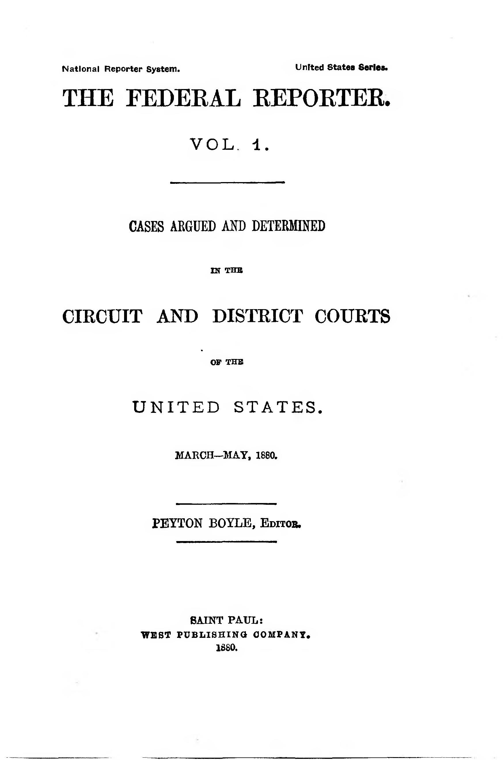 First page of Volume 1 of the Federal Reporter, First Series. Original scans from .